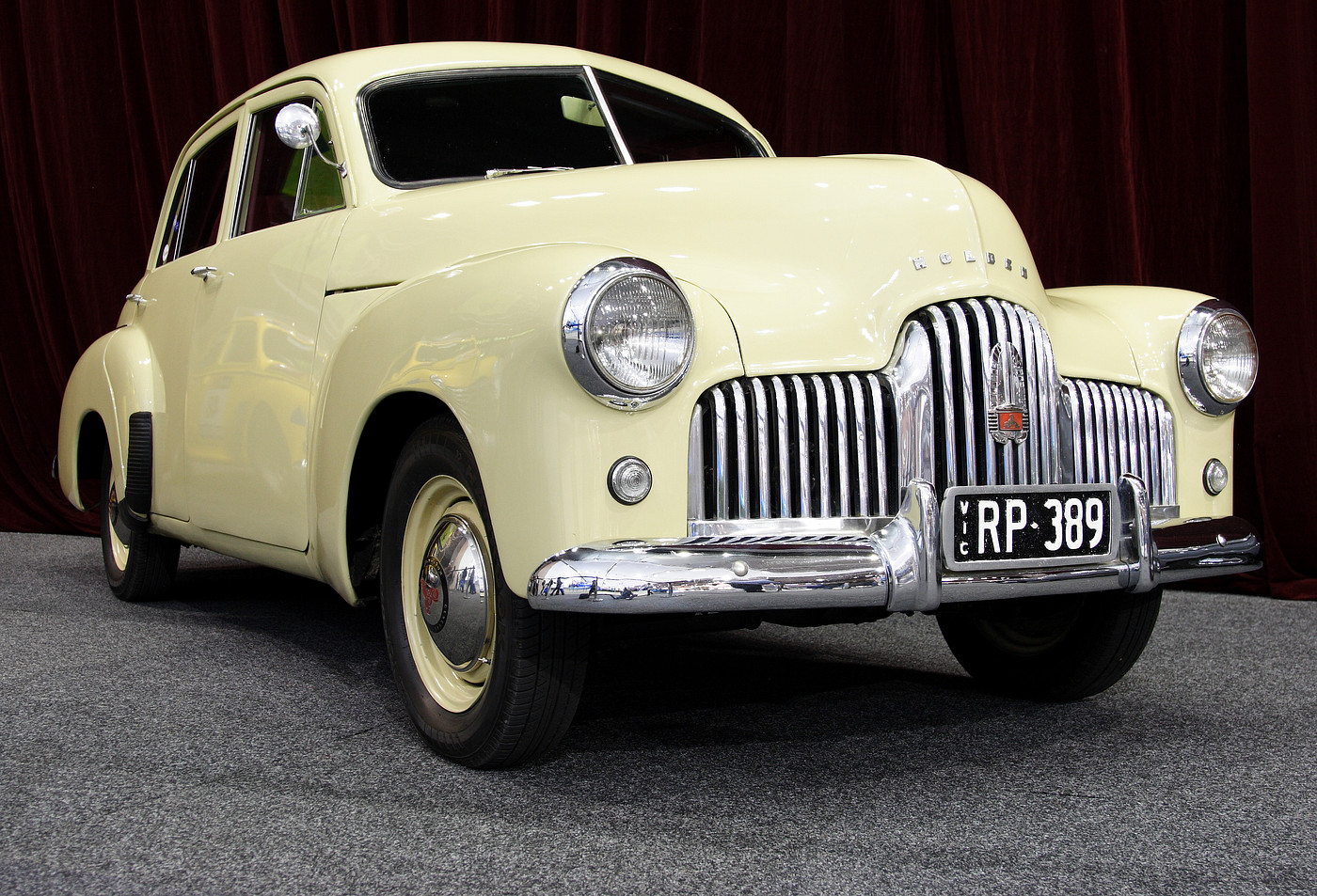 1949 Holden 48-215 sedan, photographed at the 2009 Melbourne International Motor Show, Southbank, Victoria, Australia.